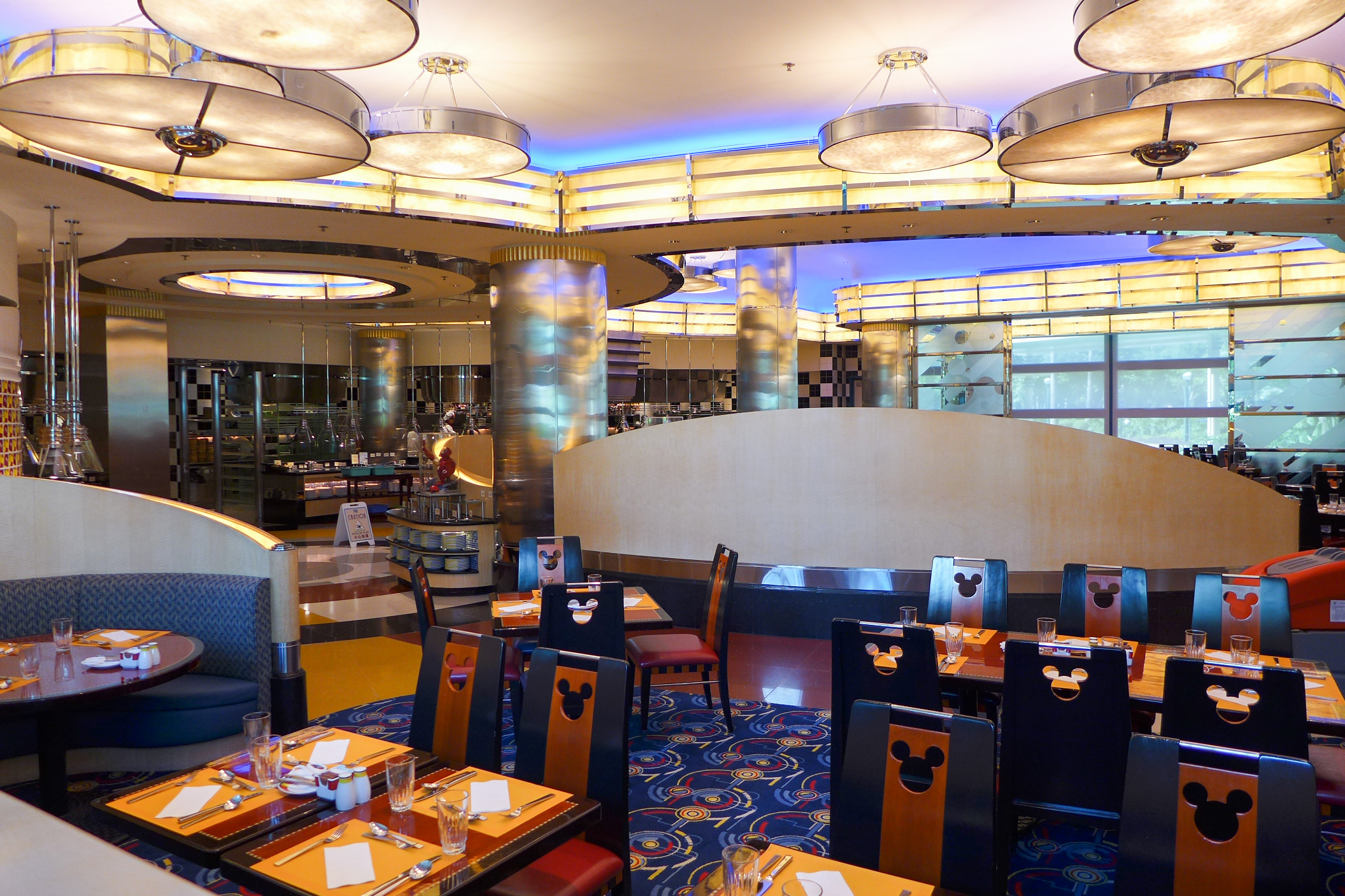 Disneyland Hollywood Hotel Chef Mickey